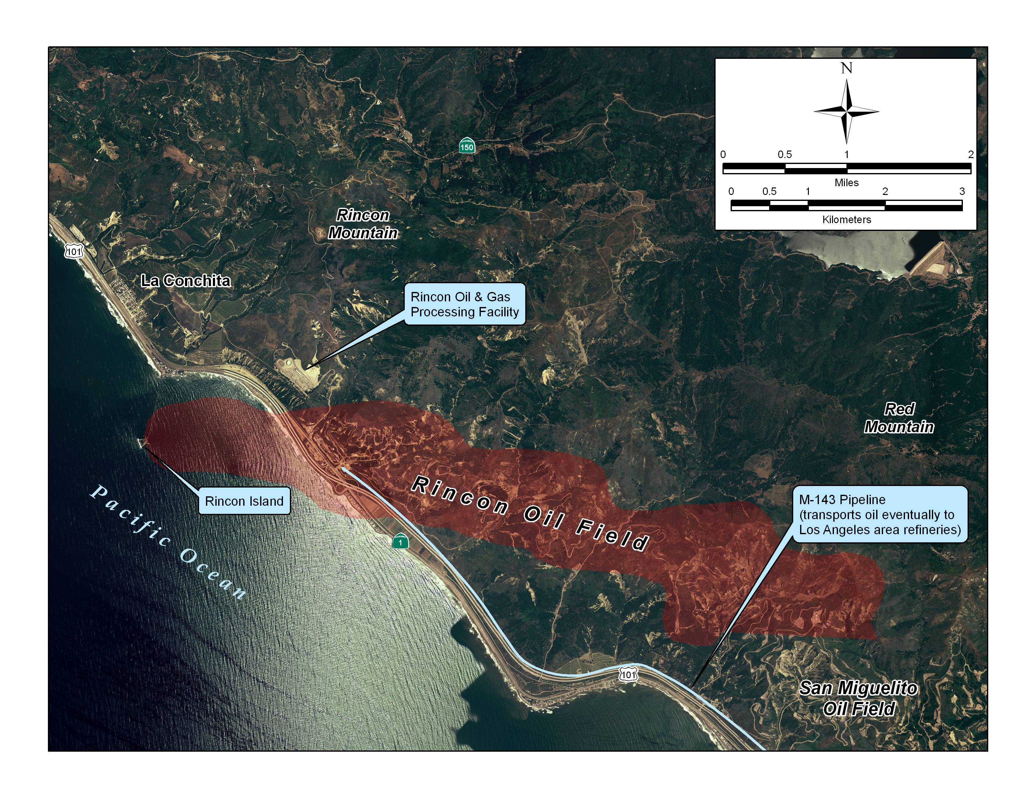 Detail of Rincon oil field; by self in ArcGIS; all data is from public domain sources (USGS, USDA, MMS, DOE, etc.)